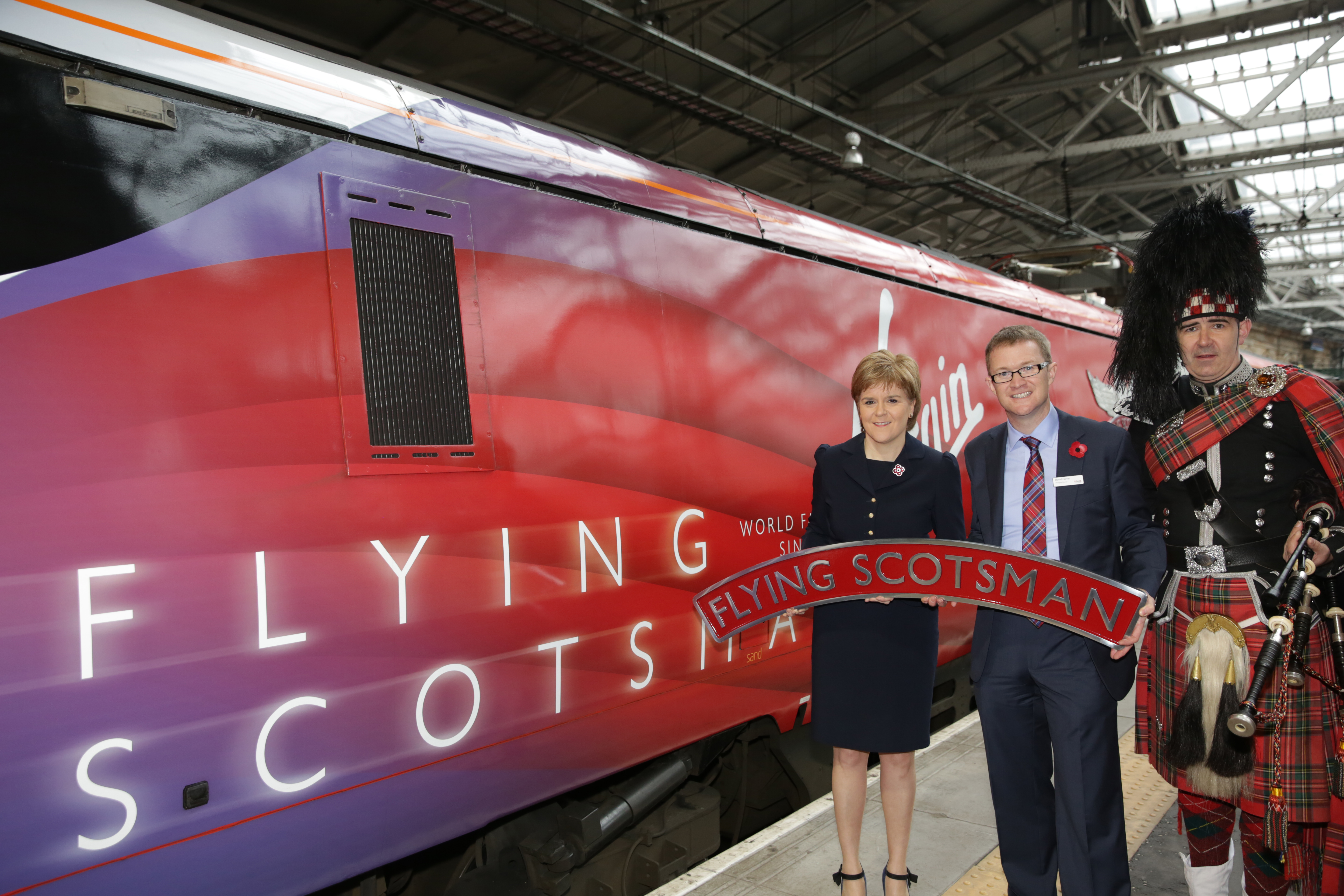 Virgin Trains East Coast Flying Scotsman naming, with Scottish First Minister Nicola Sturgeon and VTEC MD David Horne. Original description: First Minister with David Horne, MD Virgin Trains